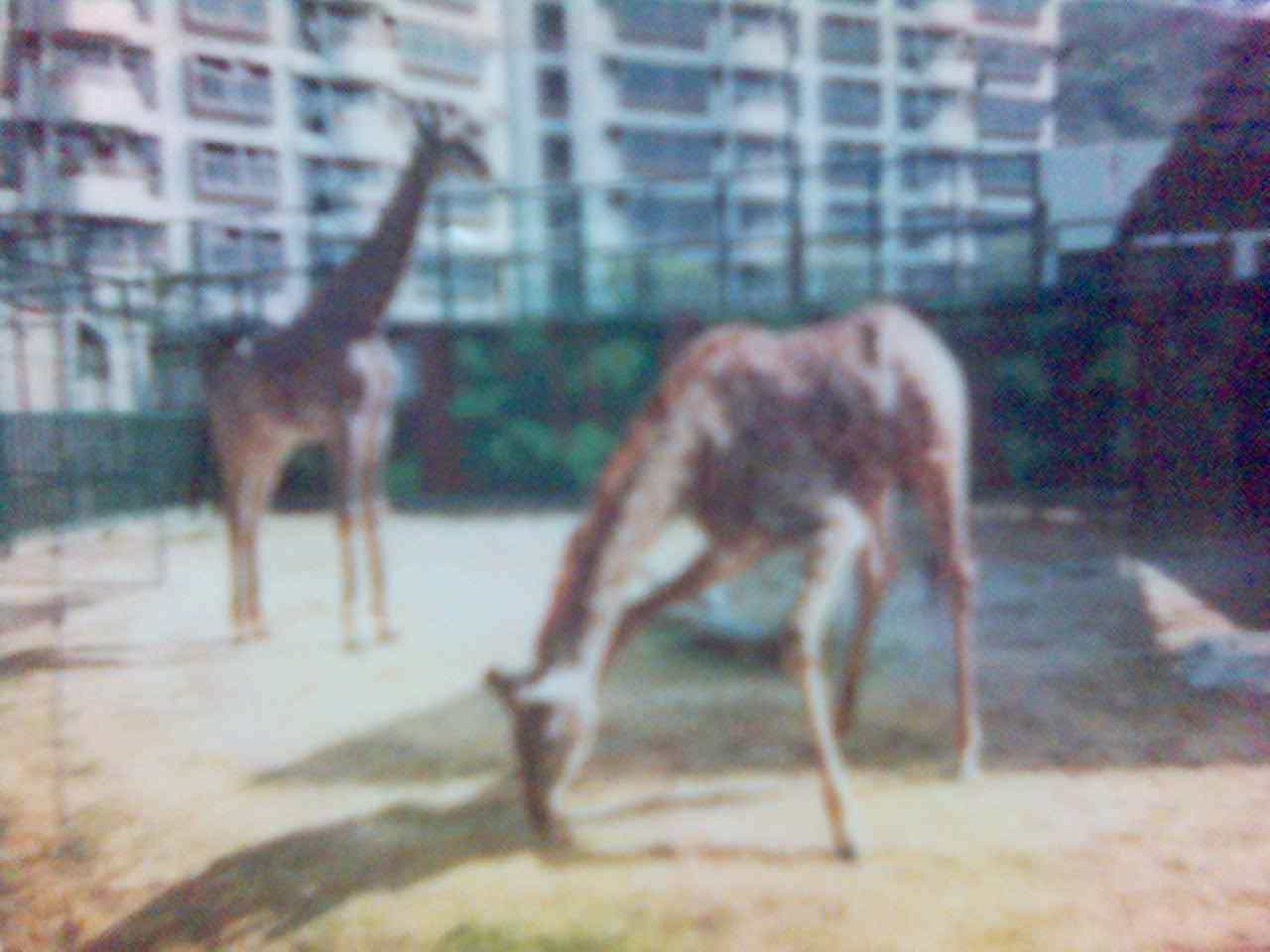 Giraffes at Lai Chi Kok Amusement Park, Hong Kong 粵語: 我喺92年12月到荔園影的，好珍貴的相！